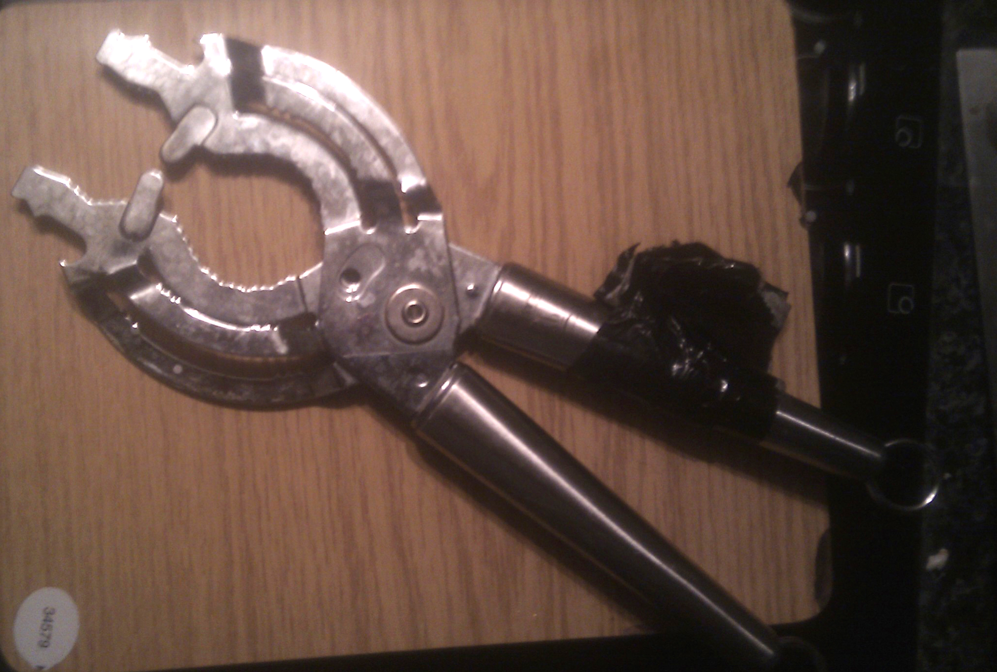 A picture of the item of kitchen equipment used for opening jars.